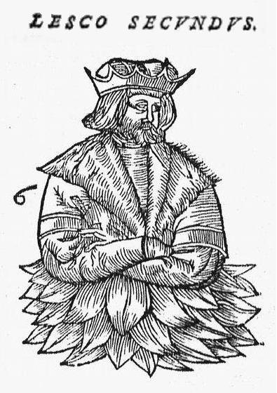 A picture of Lestek II, legendary king of Poland.